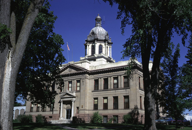 Front of the Pierce County Courthouse, located at 411 W. Main Street in Ellsworth, Wisconsin, United States. Built in 1905, it is listed on the National Register of Historic Places.